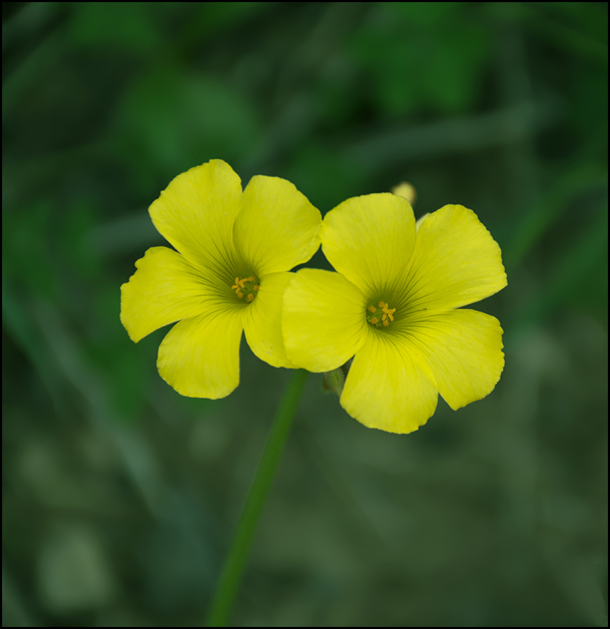 Oxalis pes-caprae, Israel